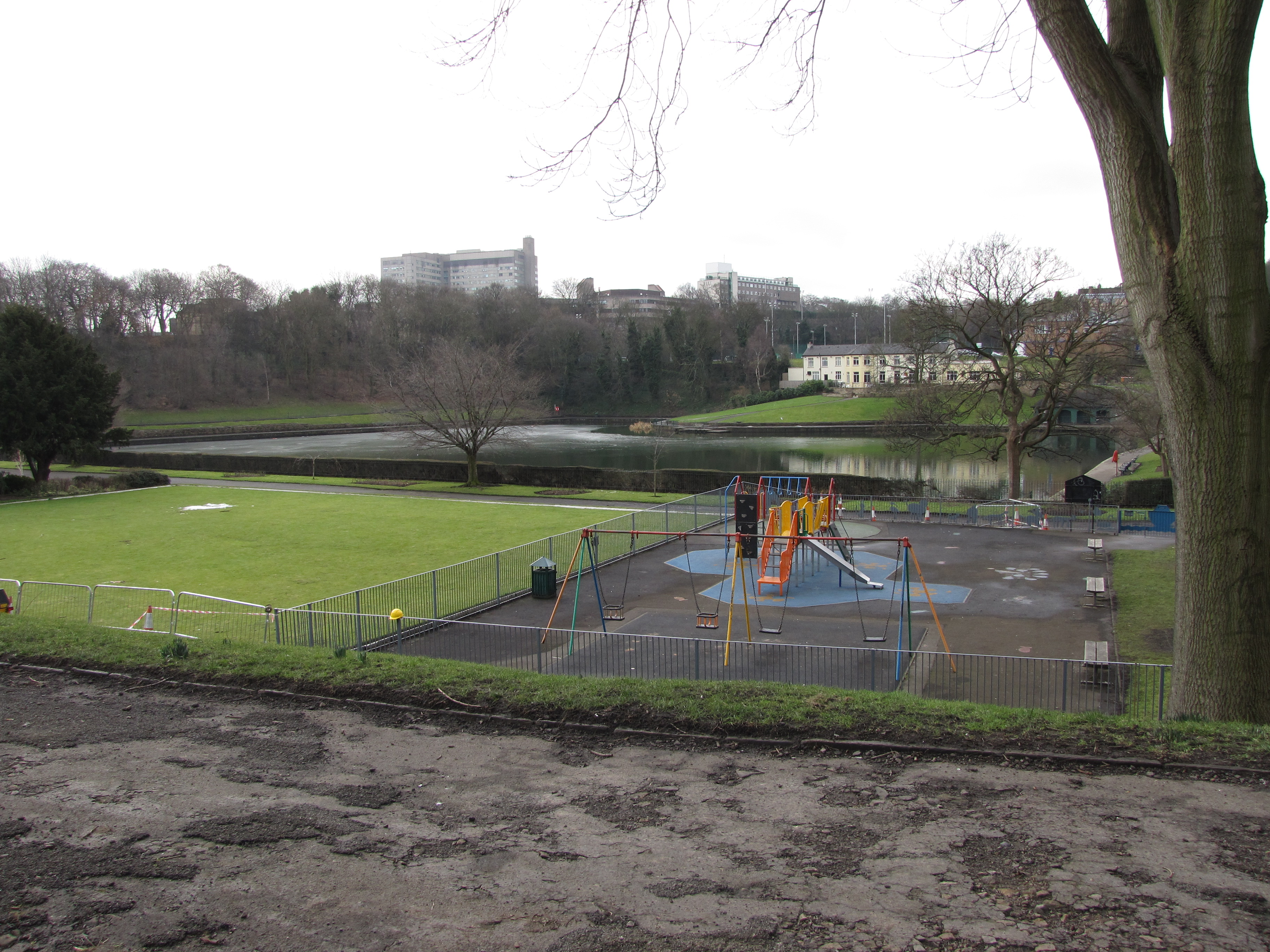 Crookes Valley Park in Sheffield, England